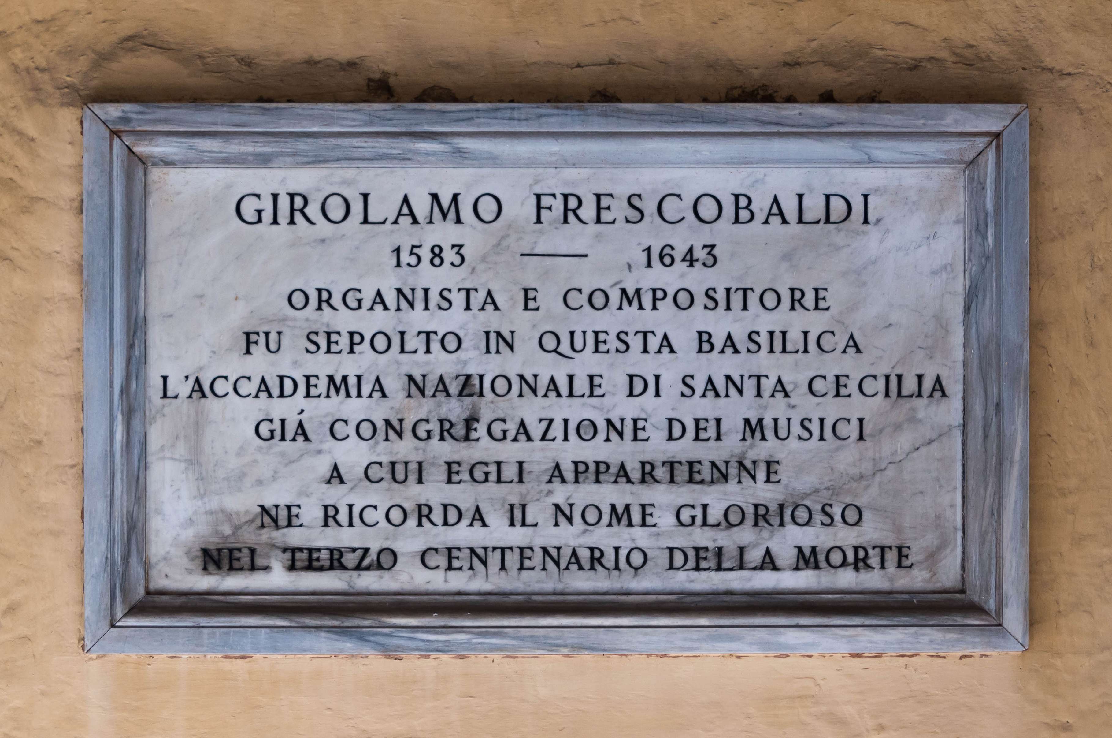 Plaque to Girolamo Frescobaldi, italian organist and composer, buried in this Basilica of the Twelve-Apostles, in Rome, Italy.